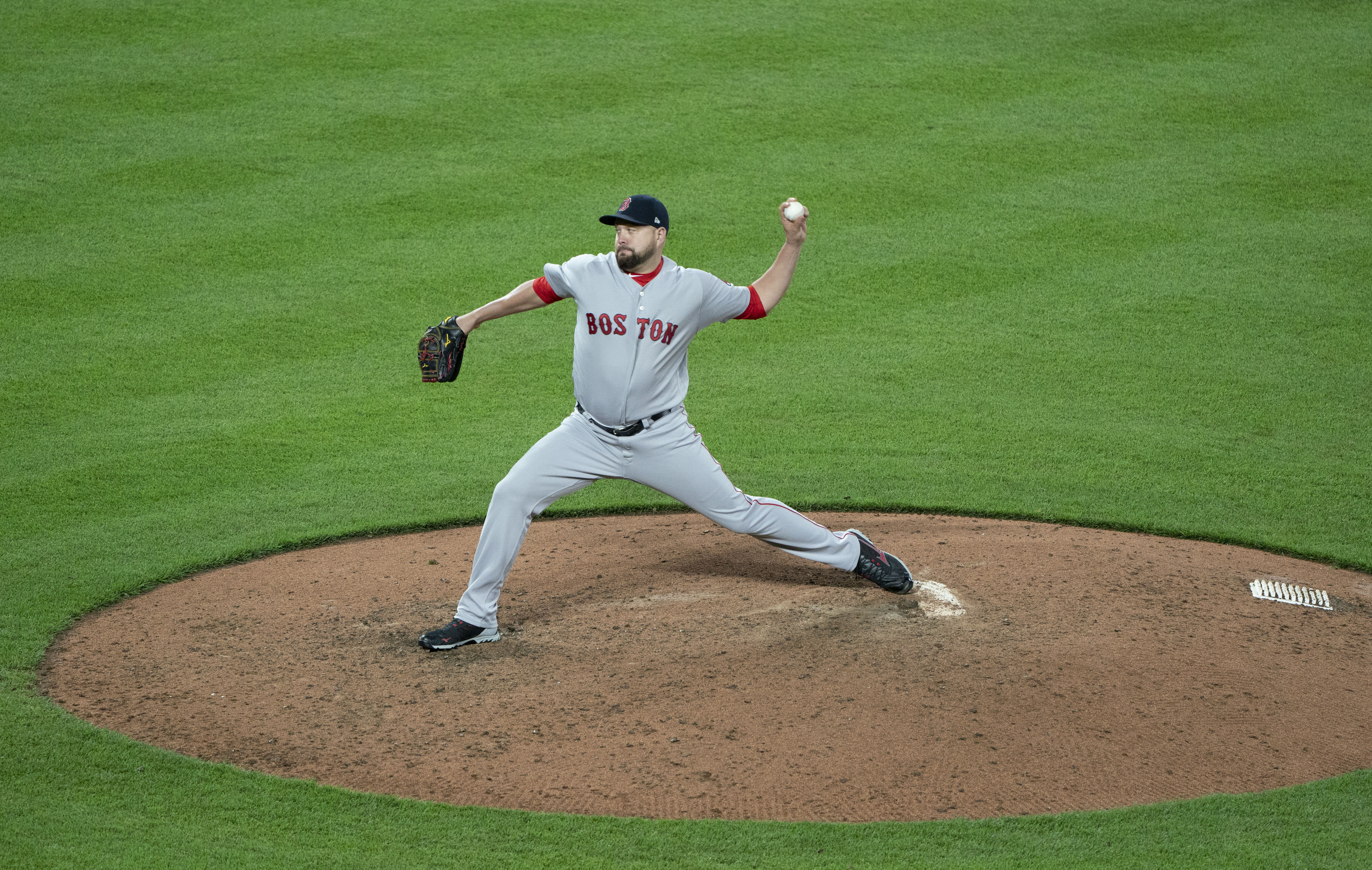 Red Sox at Orioles 6/11/18